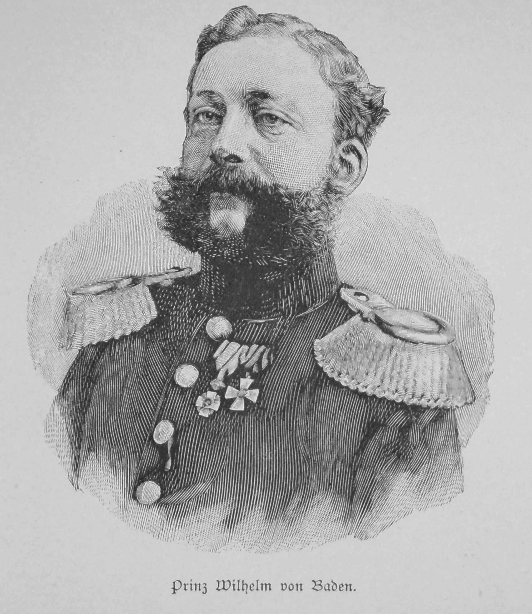 Prince Wilhelm of Baden (1829–1897)